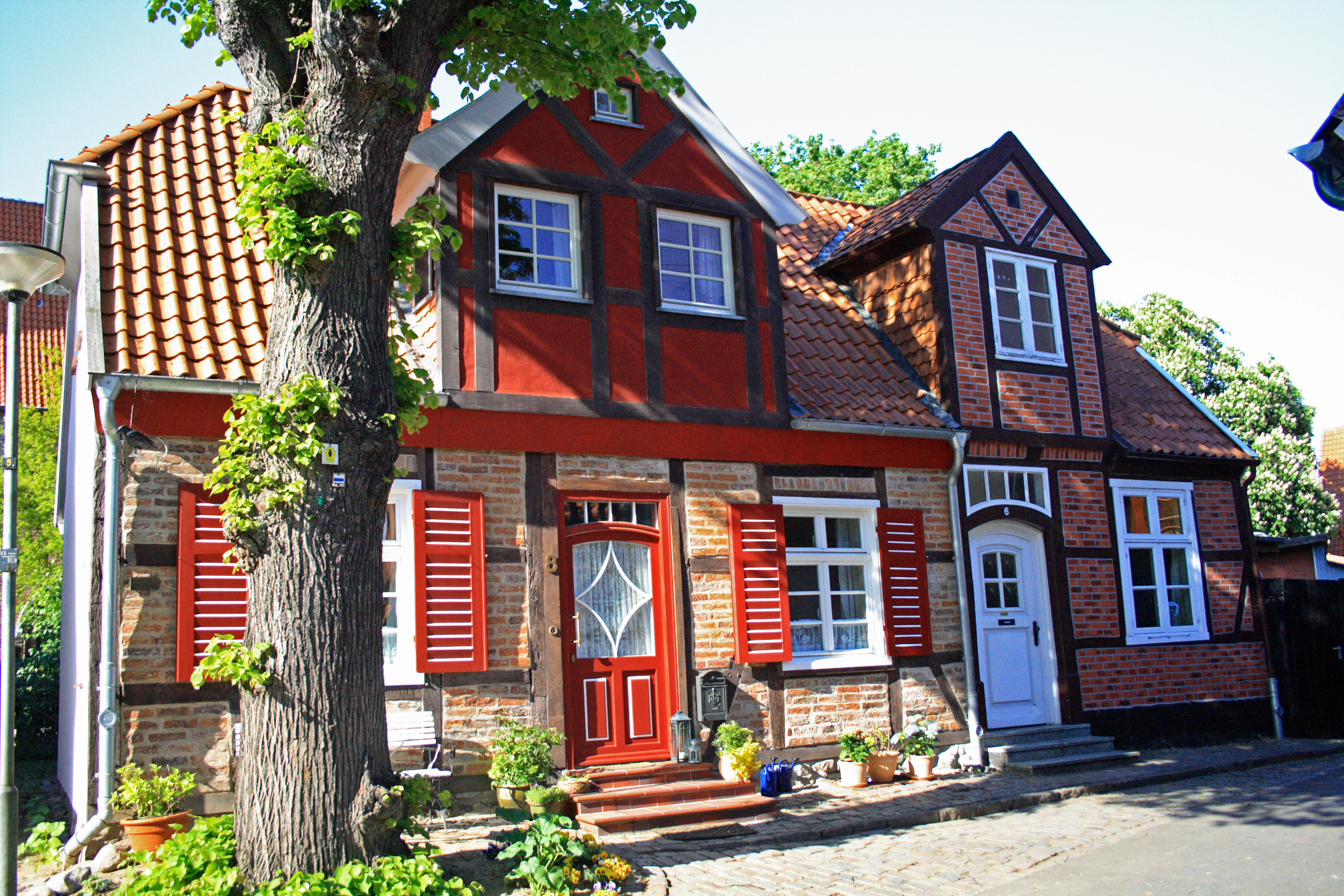 Old town of Travemünde